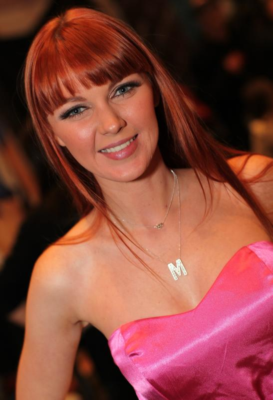 Marie McCray Photos from the 2013 AVN Expo & AVN Awards held at the at the Hard Rock Hotel & Casino in Las Vegas. Please provide photographer credit when using, tweeting, etc... Photo by Michael Dorausch This photo is licensed under a Creative Commons license. If you use this photo within the terms of the license or make special arrangements to use the photo, please list the photo credit as "Michael Dorausch" and link the credit to .